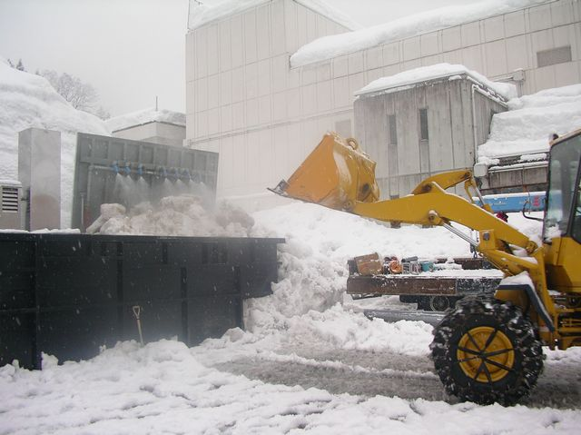 Snow melter